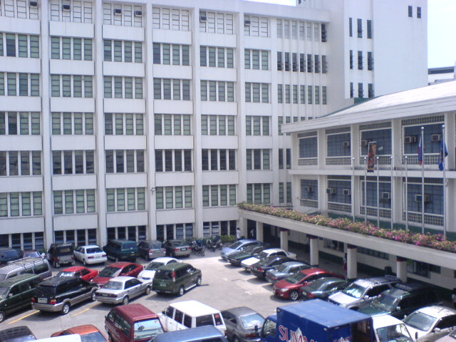 Panfilo O. Domingo Center for IT (PODCIT) and College of Computer Studies and Systems (CCSS) building at University of the East, Metro Manila, Philippines